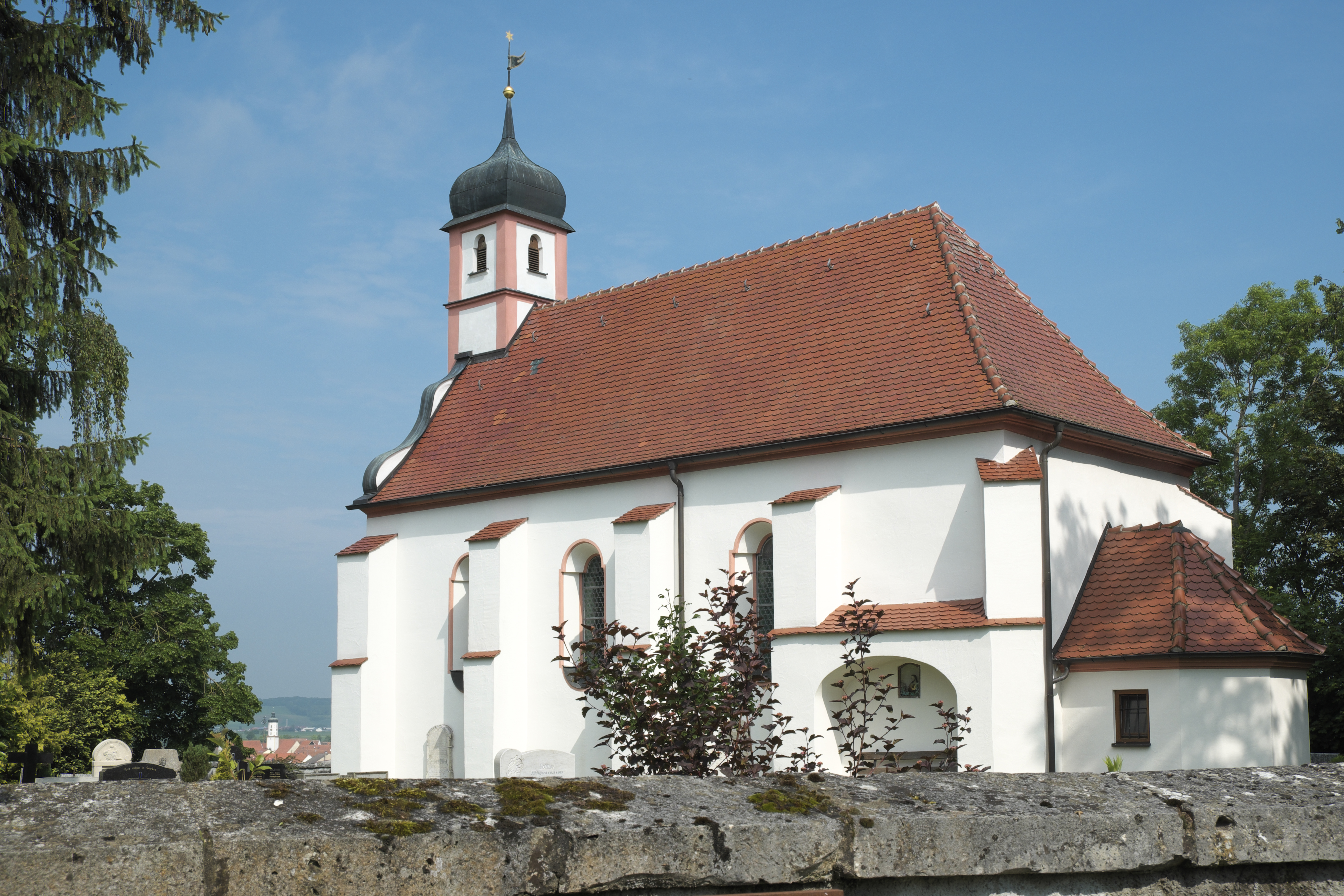 Kapelle St. Georg (Kreuzkapelle), ehemals katholische Pfarrkirche in Bachhagel, einer Gemeinde im Landkreis Dillingen an der Donau (Bayern), Chor aus dem 15. Jahrhundert, Langhaus von 1692, im Hintergrund Turm der Pfarrkirche Mariä Himmelfahrt